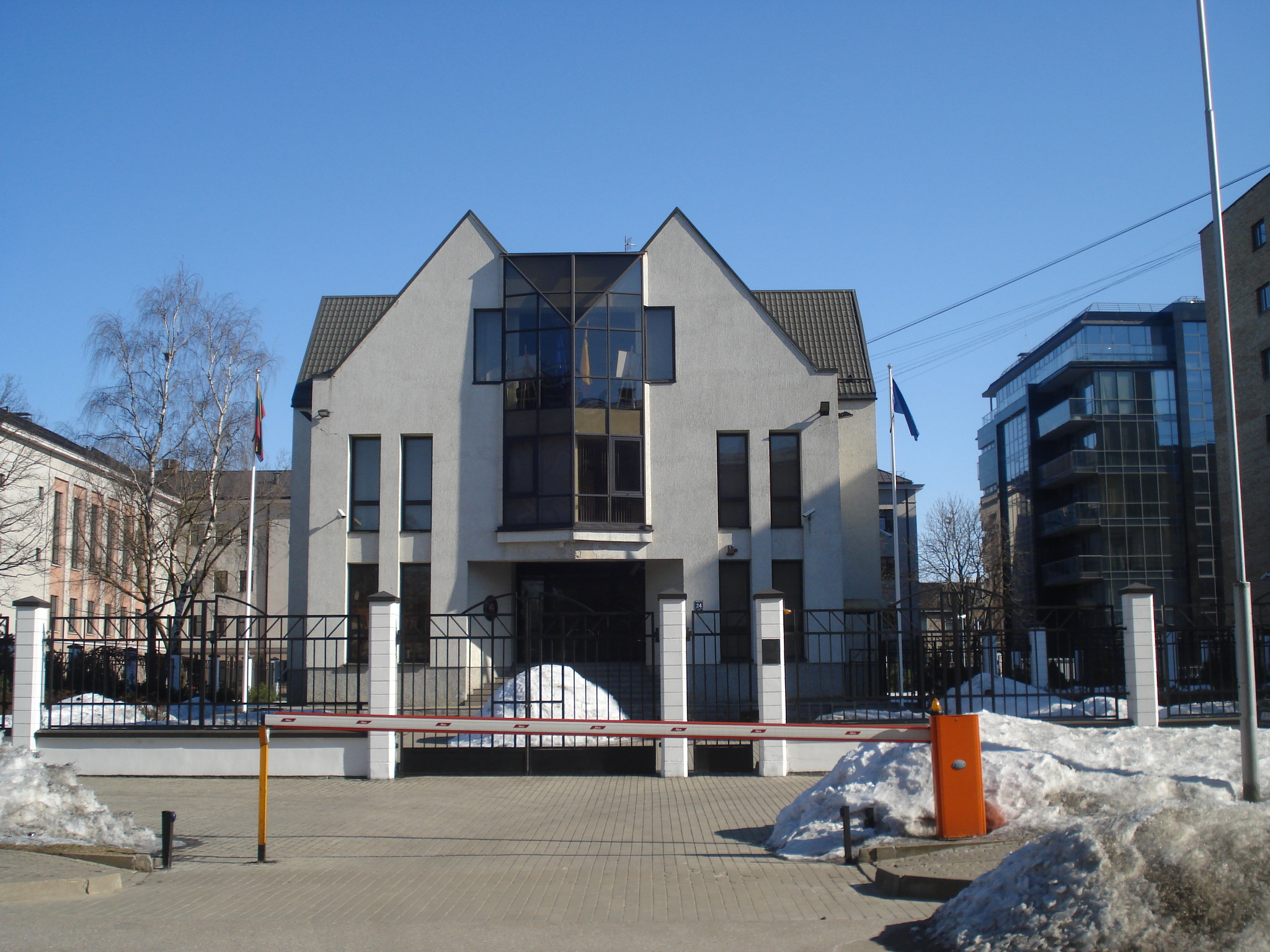 Lithuanian embassy in Latvia, Riga (Rūpniecības str 24)